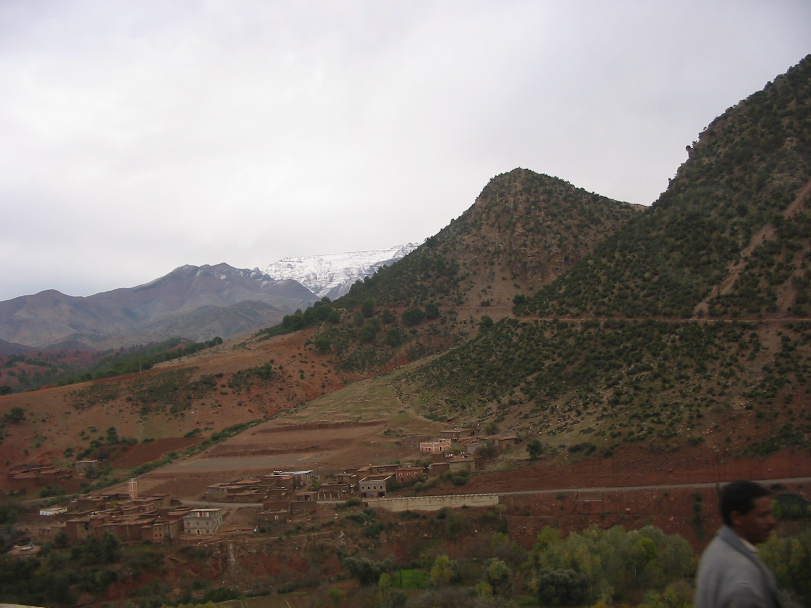 Village in the high atlas